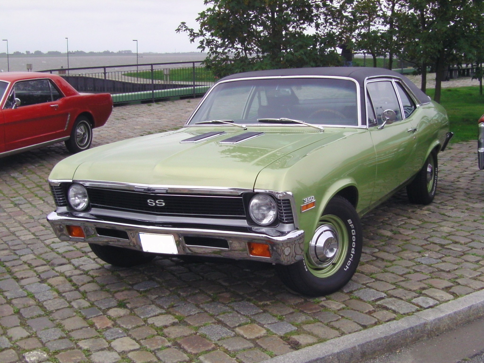 A Chevrolet Nova SS 350